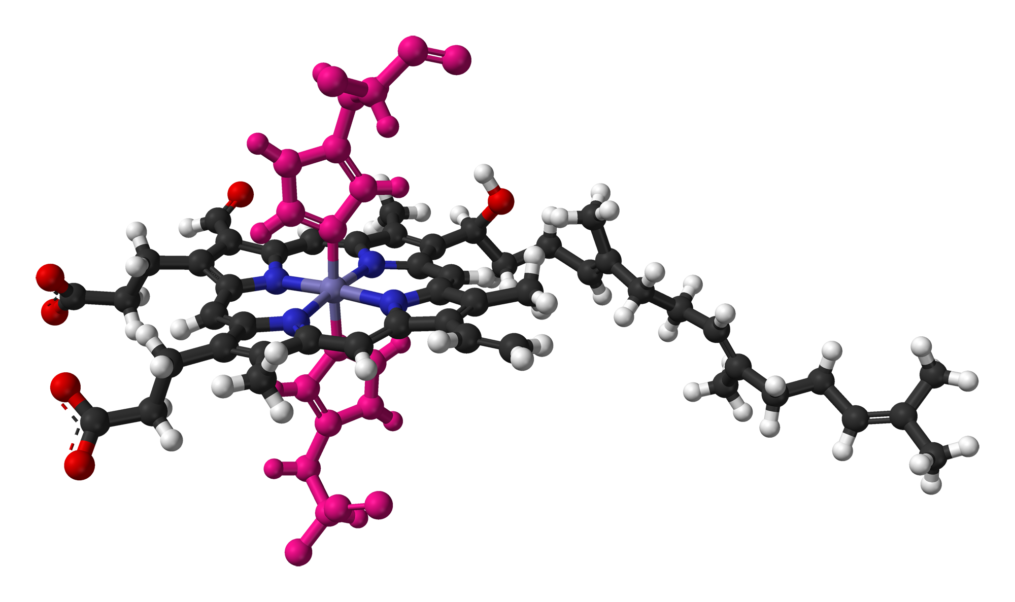 Ball-and-stick model of the haem a molecule as found in the crystal structure of bovine heart cytochrome c oxidase. Histidine residues coordinating the iron atom are coloured pink to distinguish them from haem a. Colour code: Carbon, C: grey-black Hydrogen, H: white Nitrogen, N: blue Oxygen, O: red Iron, Fe: blue-grey Structure by X-ray crystallography from PDB 1OCR, Science (1998) 280, 1723-1729. Image generated in Accelrys DS Visualizer.